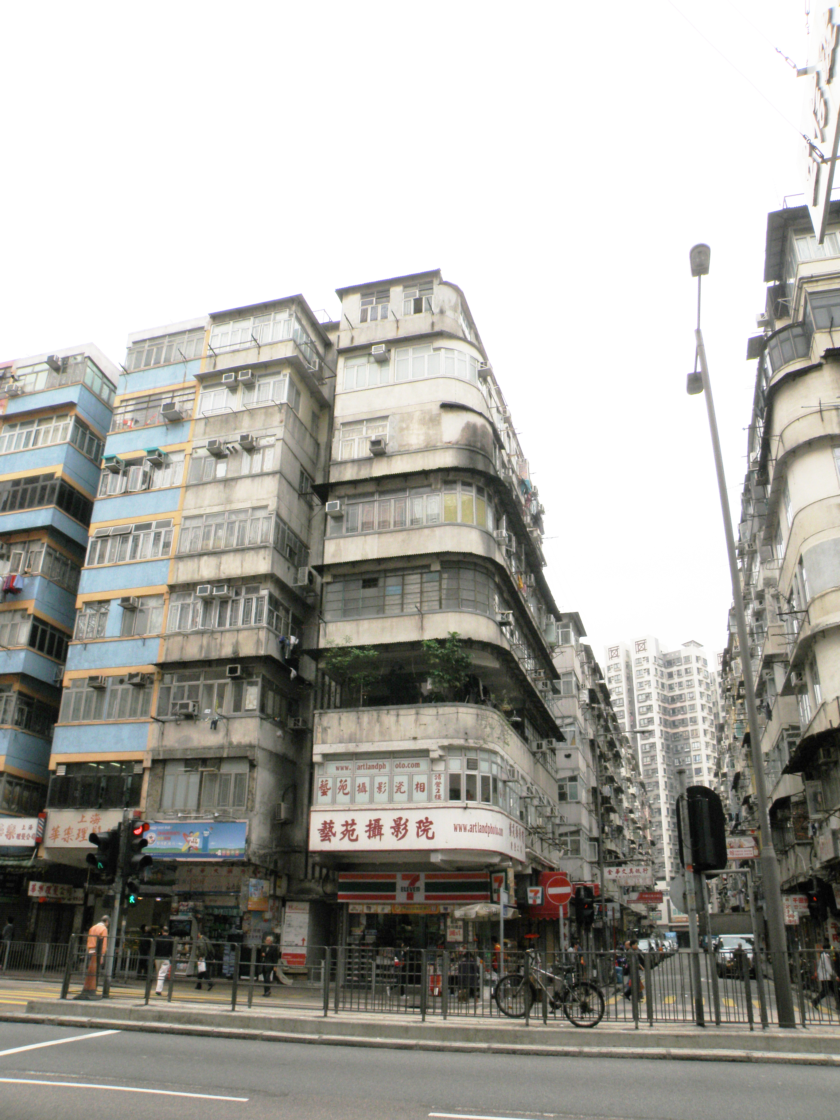 111, 113 Ma Tau Wai Road in Ma Tau Wai, Hong Kong.